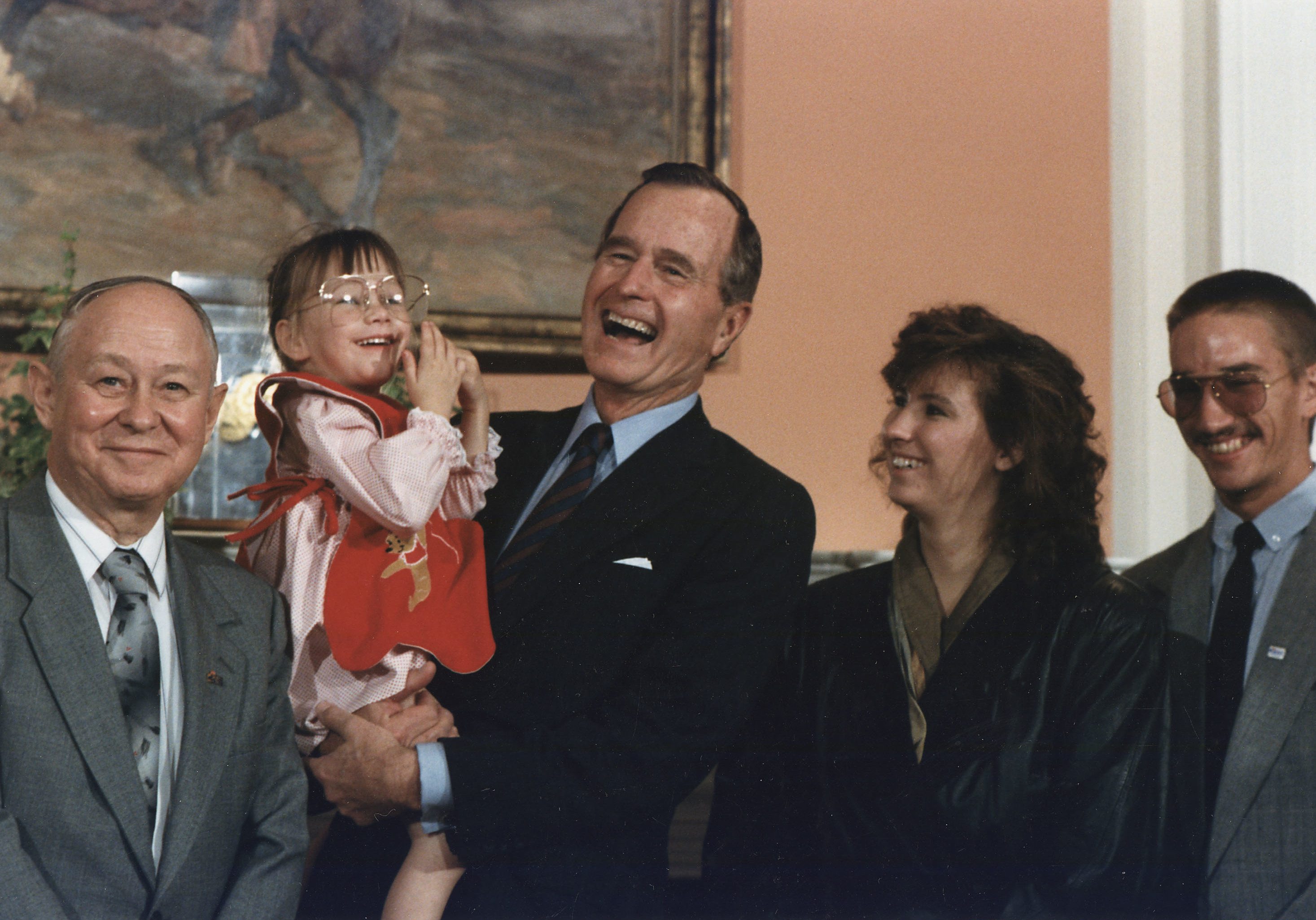 President Bush holds Jessica McClure during the Midland Community Spirit Award Presentation in the Roosevelt Room at the White House. The award was established by the town of Midland, TX and awarded to Sioux City, IA in recognition of the community's response to the crash of United Airlines Flight 232 on July 19, 1989